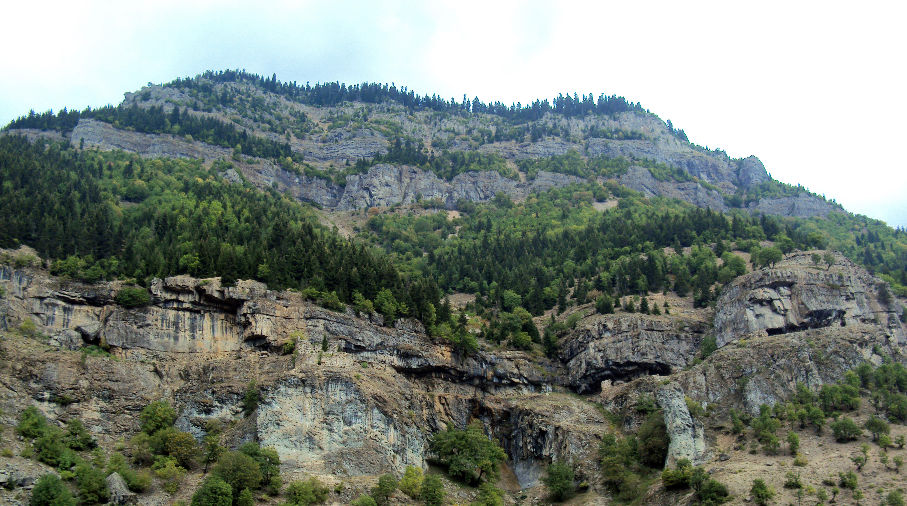 Parekhi monastery